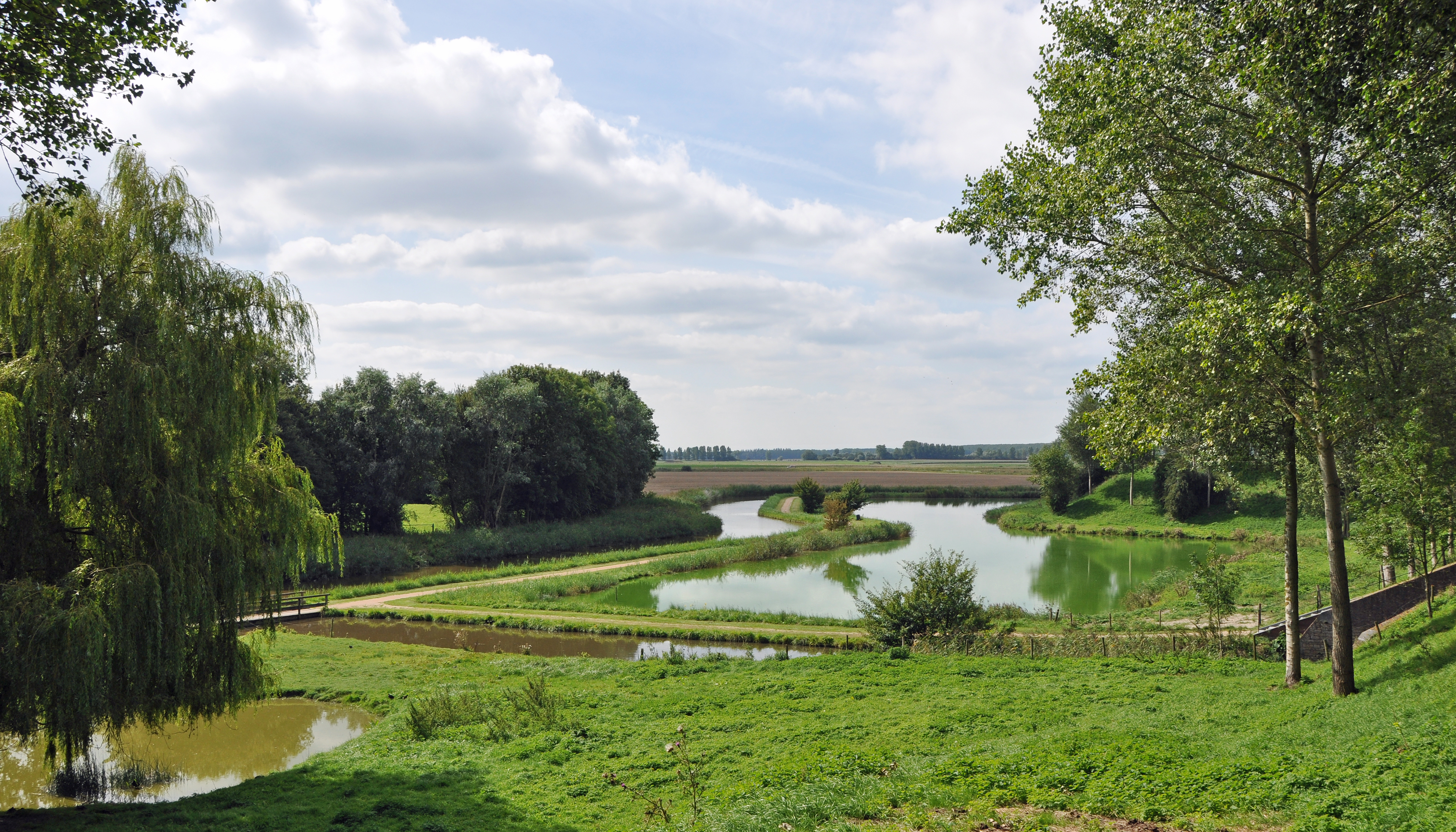 Sluis (the Netherlands): the ramparts